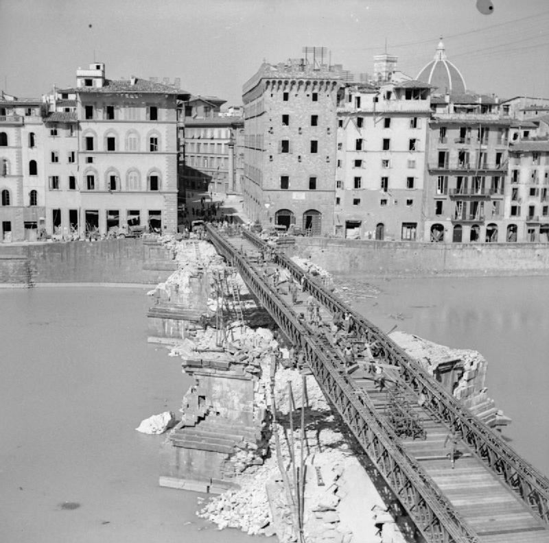 The British Army in Italy 1944 Bailey bridge over the River Arno in Florence, 15 August 1944. The bridge was constructed by 577 Field Company Royal Engineers on the piers of the original Ponte San Trinita blown up by the Germans.